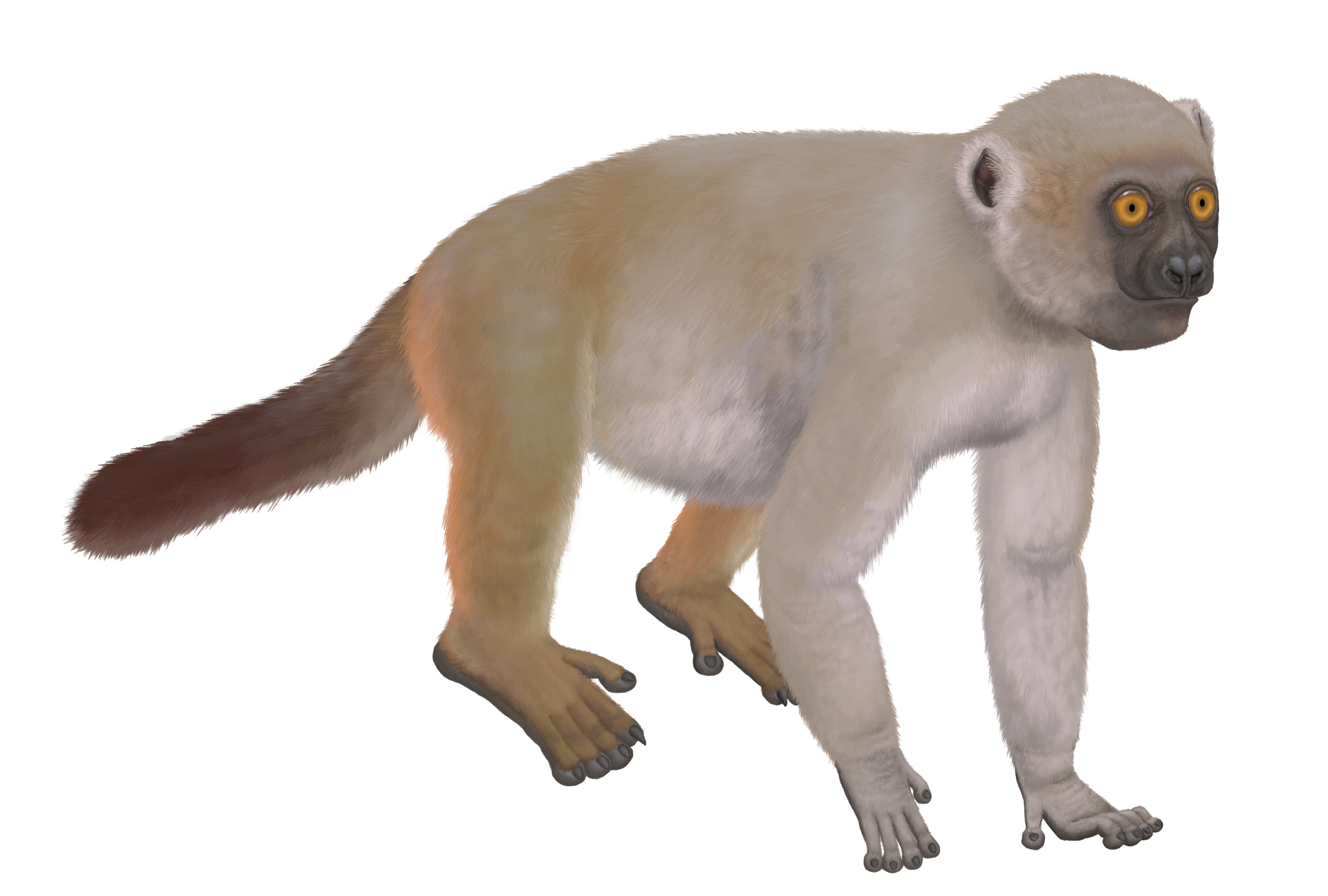 Life restoration of Hadropithecus stenognathus. Based on: Life restoration by Stephen Nash in figure 6.2 of "Lemurs: Old and New" by Elwyn L. Simons: Natural Change and Human Impact in Madagascar. Life restoration by Stephen Nash in Lemurs of Madagascar, 3rd edition. Photograph of skull at Duke University Lemur Center Division of Fossil Primates website (third photograph, bottom left skull).